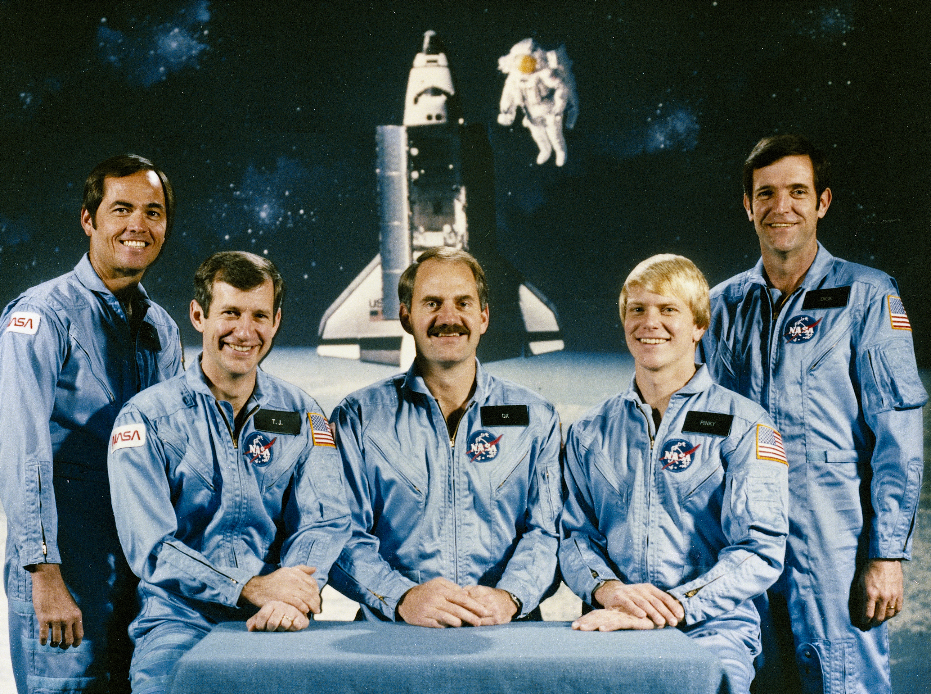 The crew assigned to the STS-41CB (STS-13) mission included (left to right) Robert L. Crippen, commander; Terry J. Hart, mission specialist; James D. Van-Hoften, mission specialist; George D. Nelson, mission specialist; and Francis R. (Dick) Scobee, pilot. Launched aboard the Space Shuttle Challenger on April 6, 1984 at 8:58:00 am (EST), the STS-41C mission marked the first direct ascent trajectory for the Space Shuttle. The crew deployed the Long Duration Exposure Facility (LDEF).